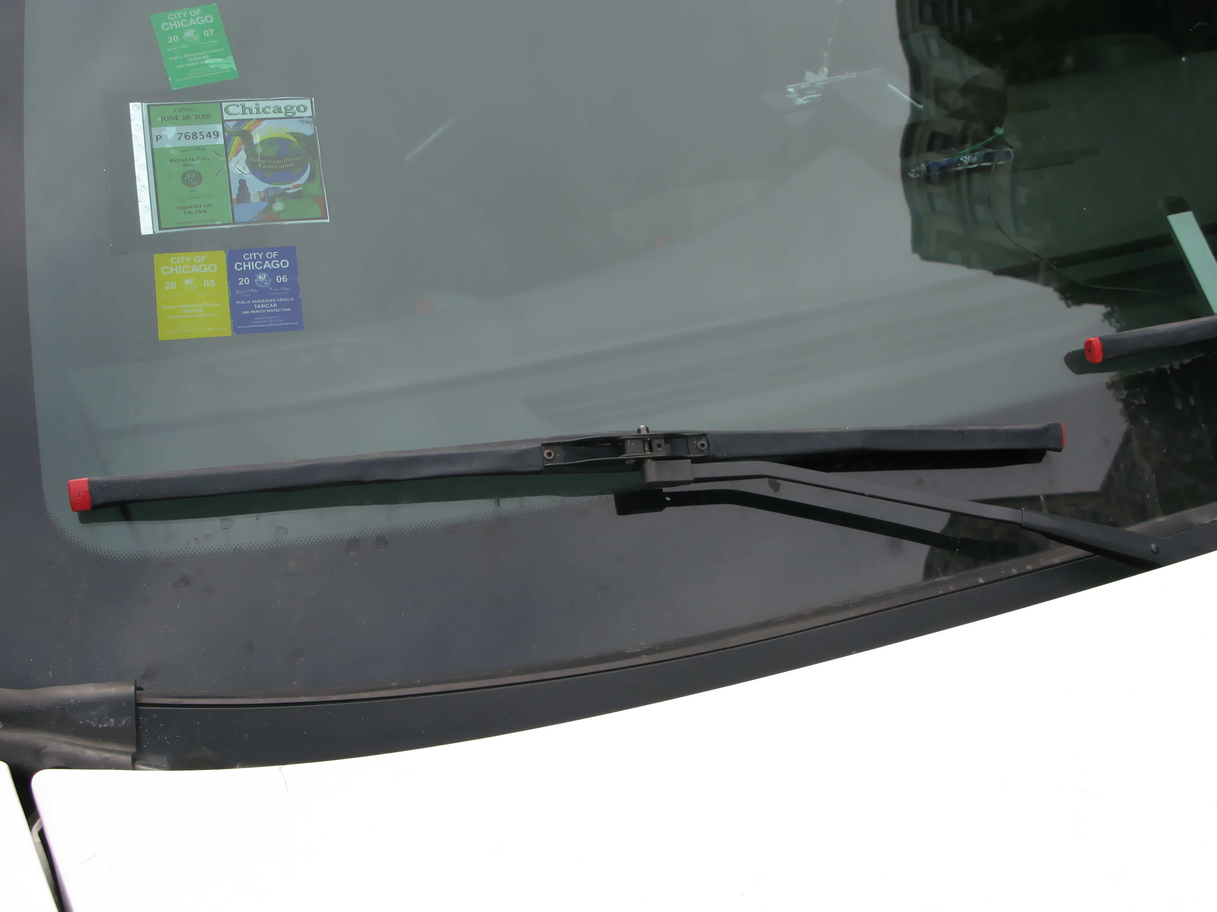 Part of windshield & wipers